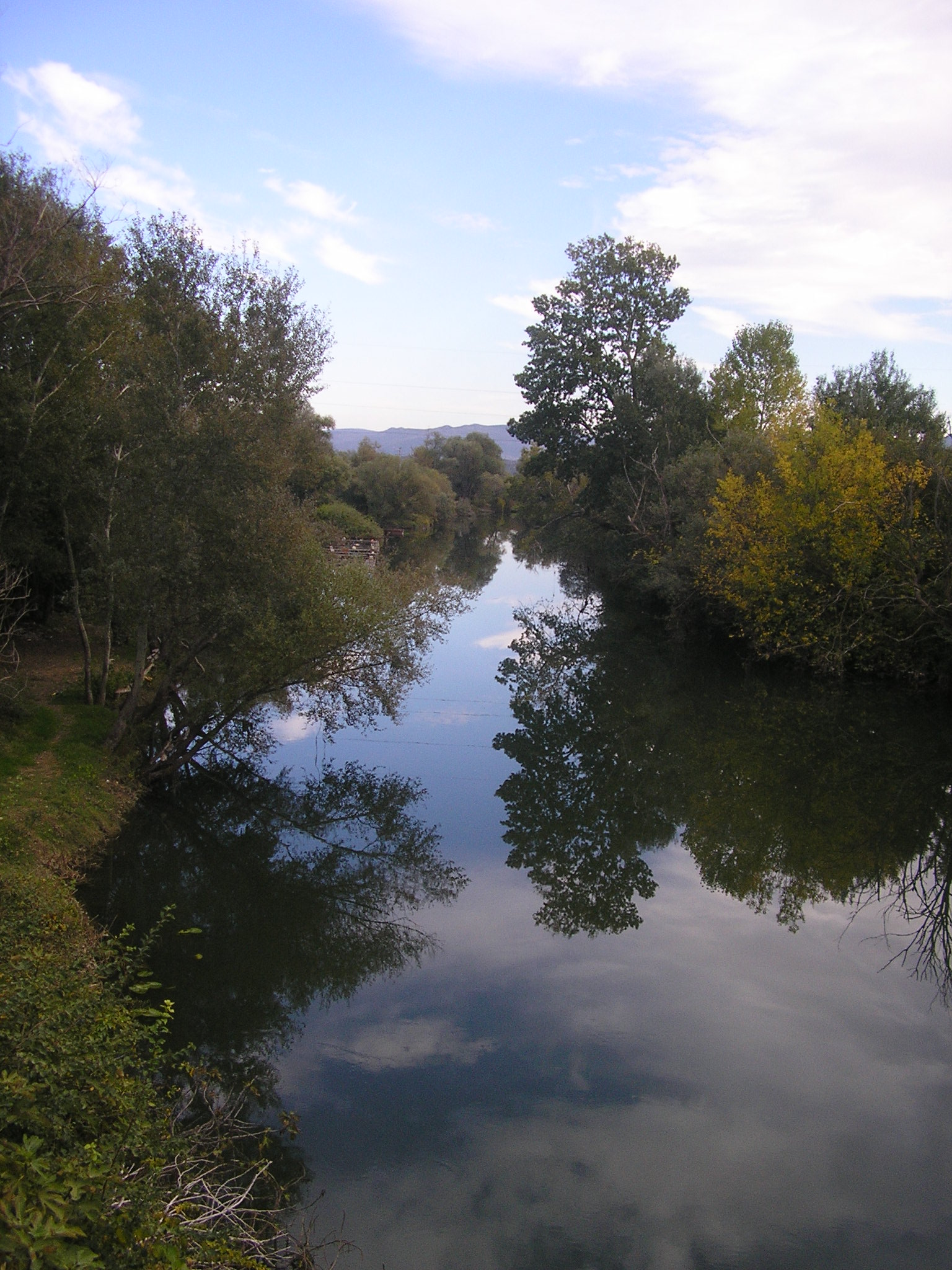 Krupa River near Dračevo